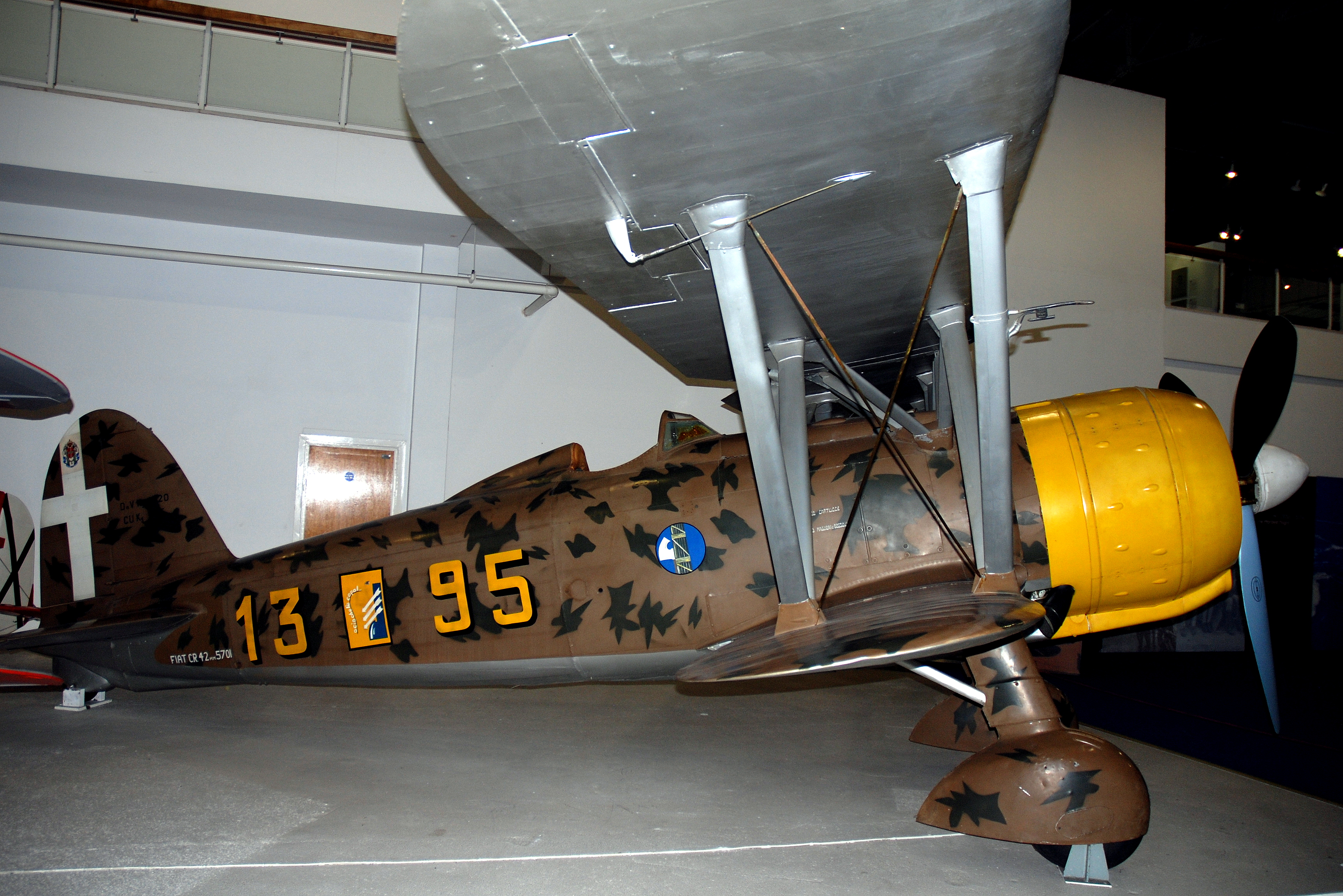 Photo ref; Nikon-D80-2015-DSC_0854 (Edited)